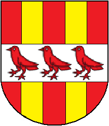 Coat of arms of Ederswiler, Canton of Jura, Switzerland (Source: Symbol on the wall of the municipal administration)